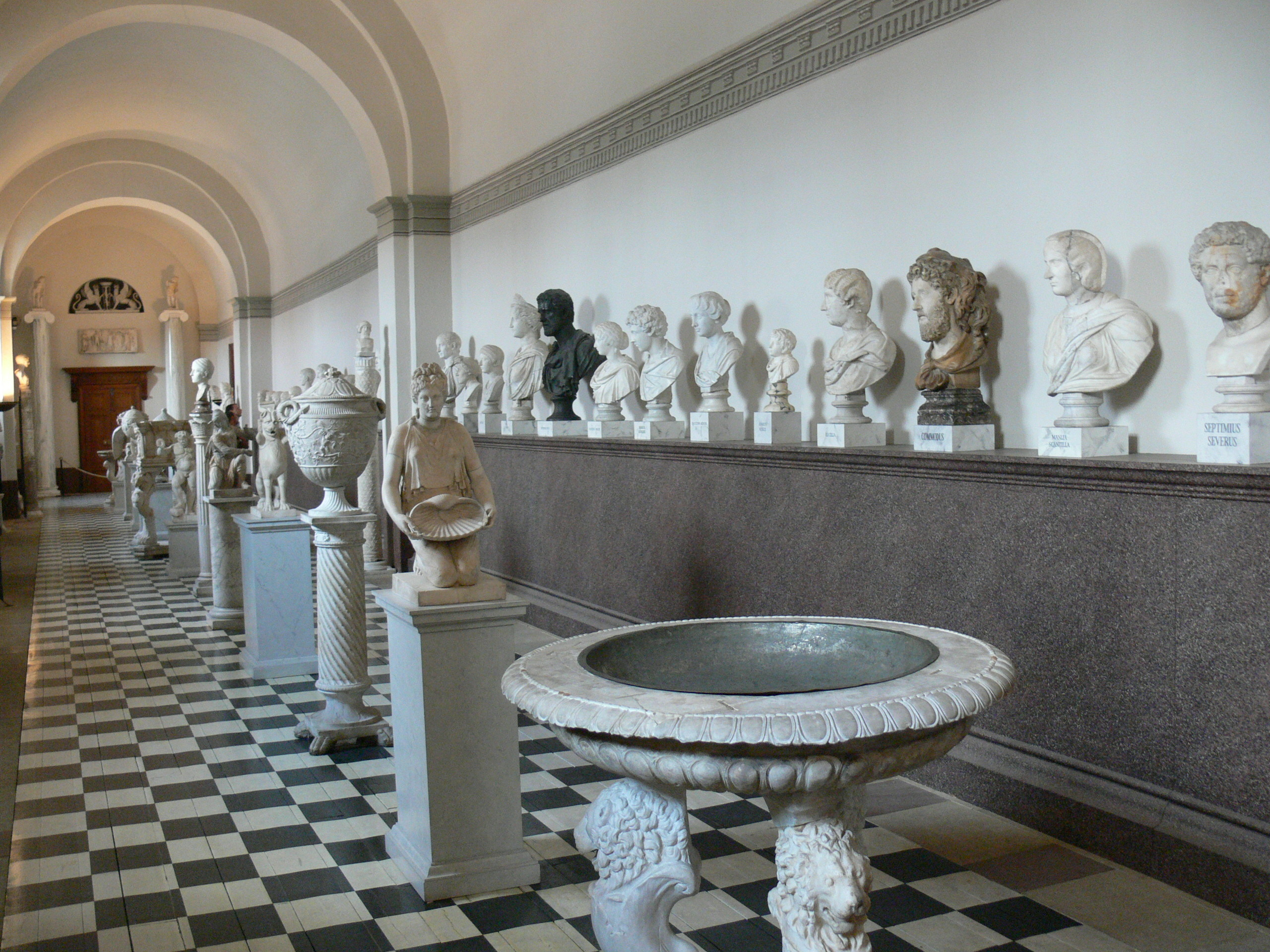 Museum of Antiquity in the Royal Palace, Stockholm. Gallery of Roman portrait busts.